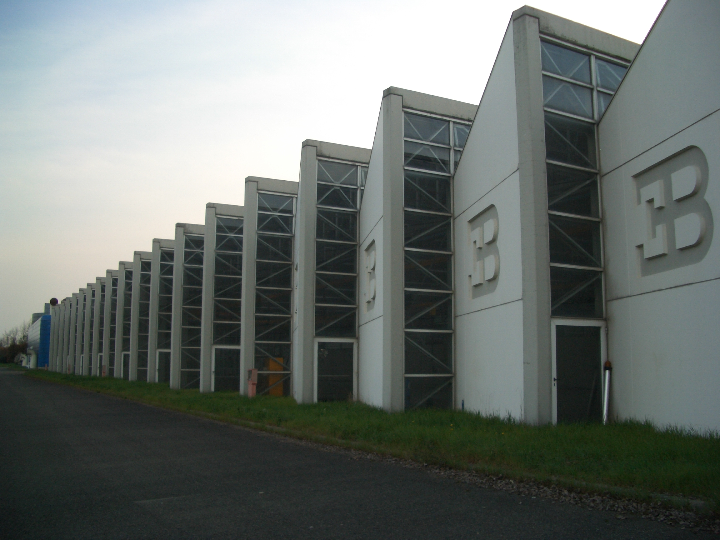 (Department of assembly (right side) and engine department (left side) of the factory Bugatti Campogalliano, 1998 closed.)